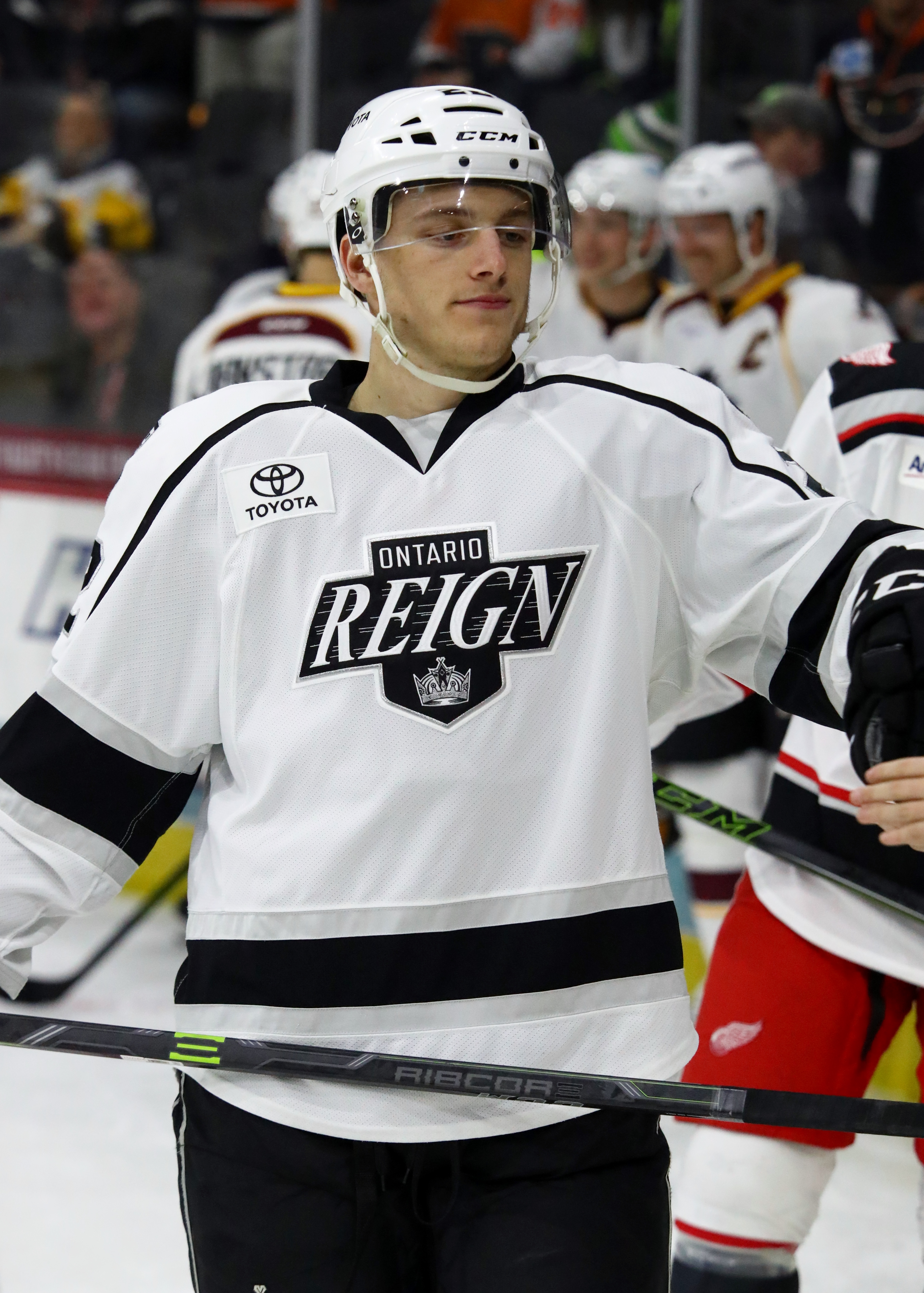 Jonny Brodzinski of the Ontario Reign